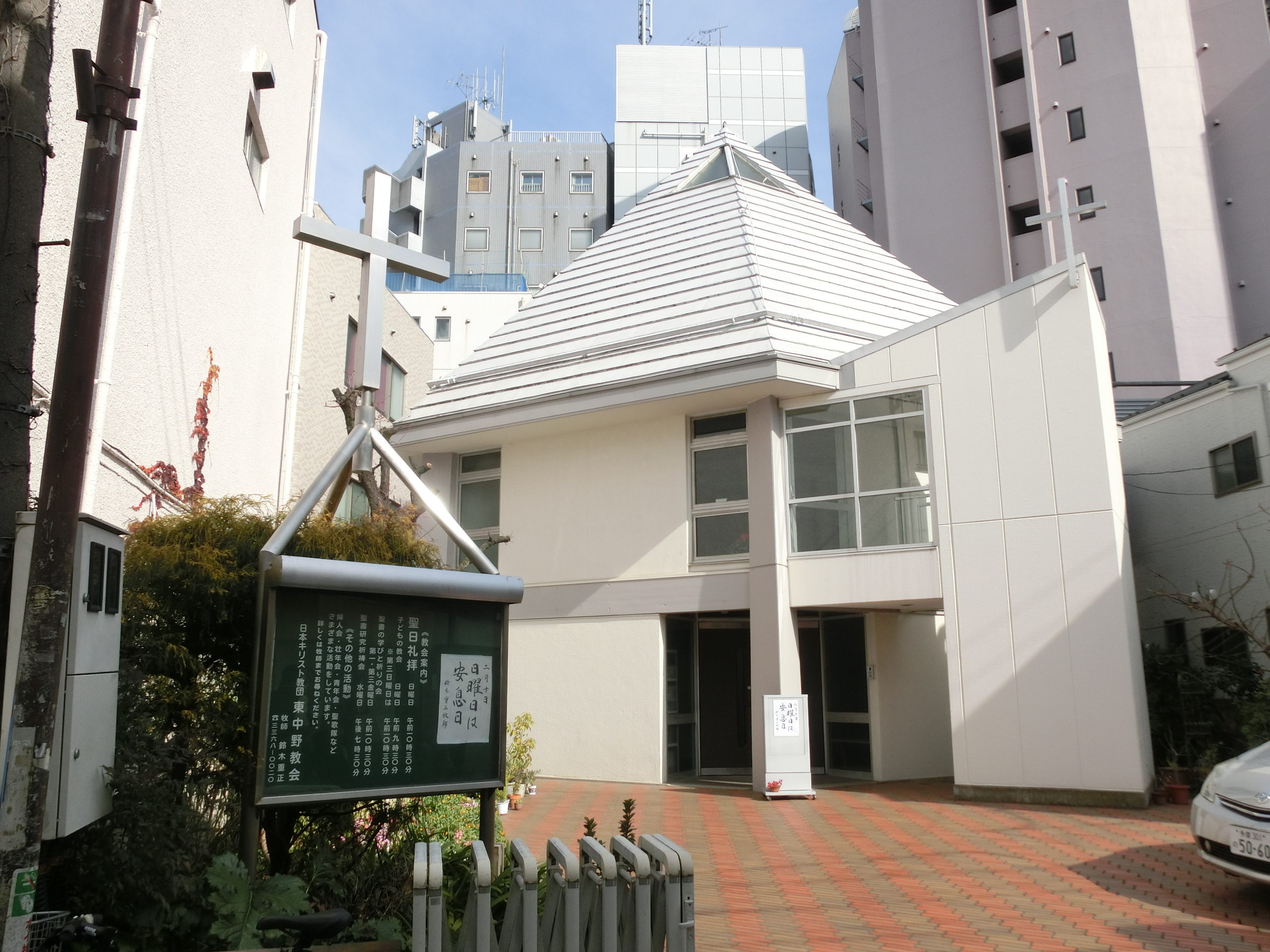 UCCJ Higashinakano Church